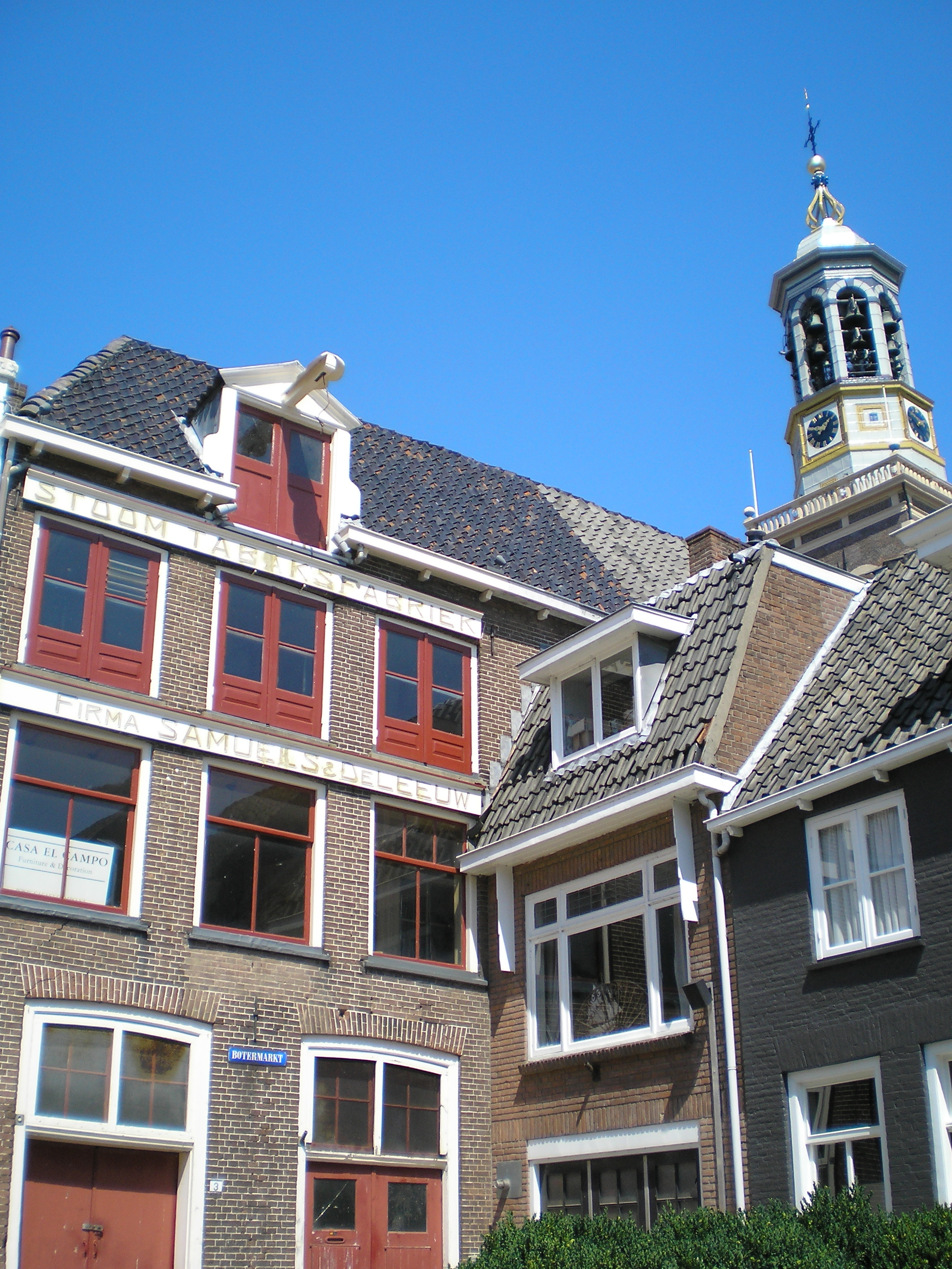 Botermarkt in Kampen in the Netherlands